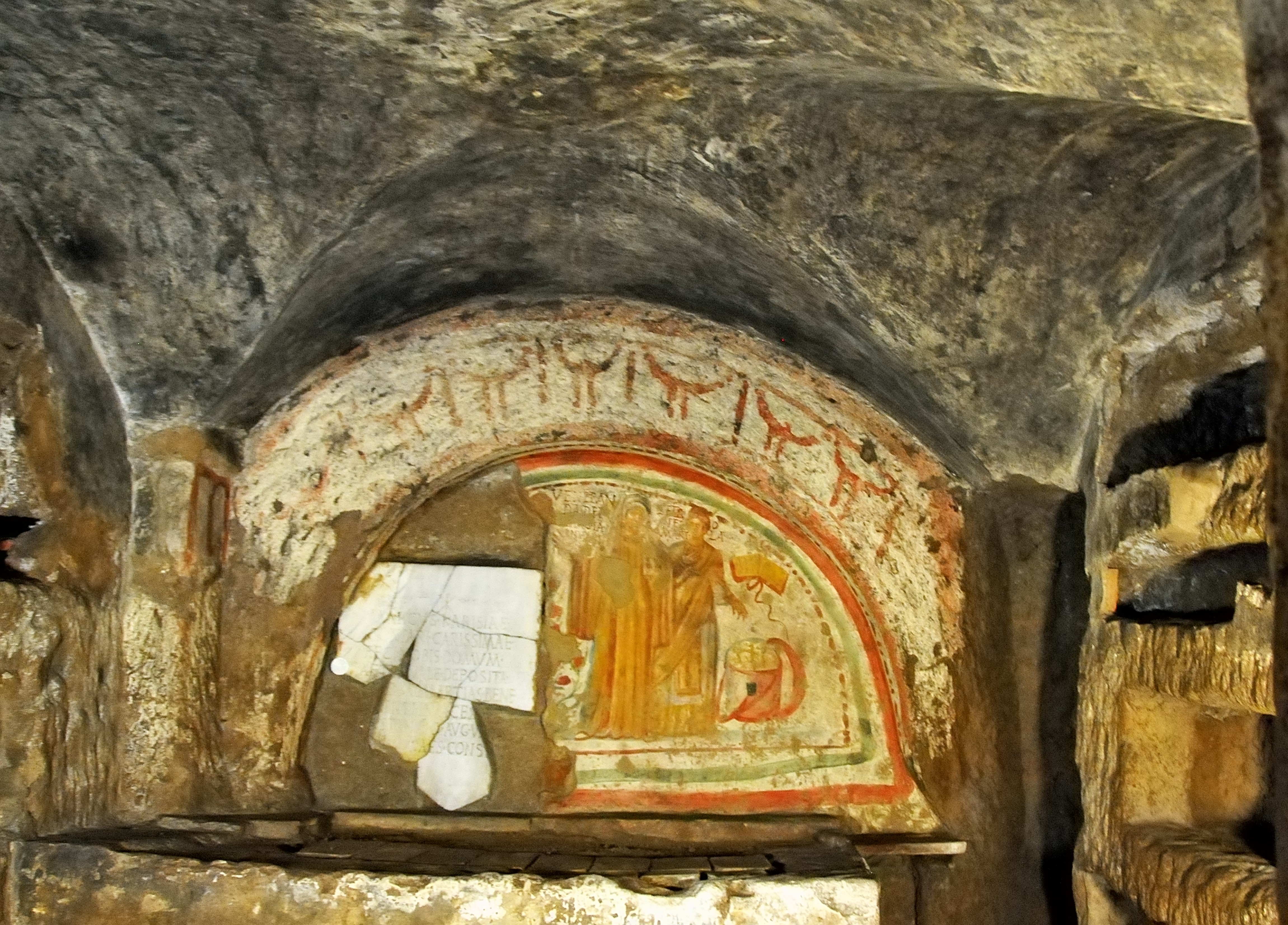 The Catacombs of St. Domitilla are the best preserved and one of the most extensive of all the catacombs. This catacomb is also unique in that it has a subterranean 4th century Basilica of St Nereus and St Achilleus. The two women in the fresco are Veneranda and Petronilla